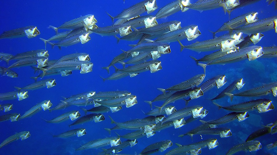 Group of fish (Rastrelliger kanagurta) near the beach of Sharm El Naga